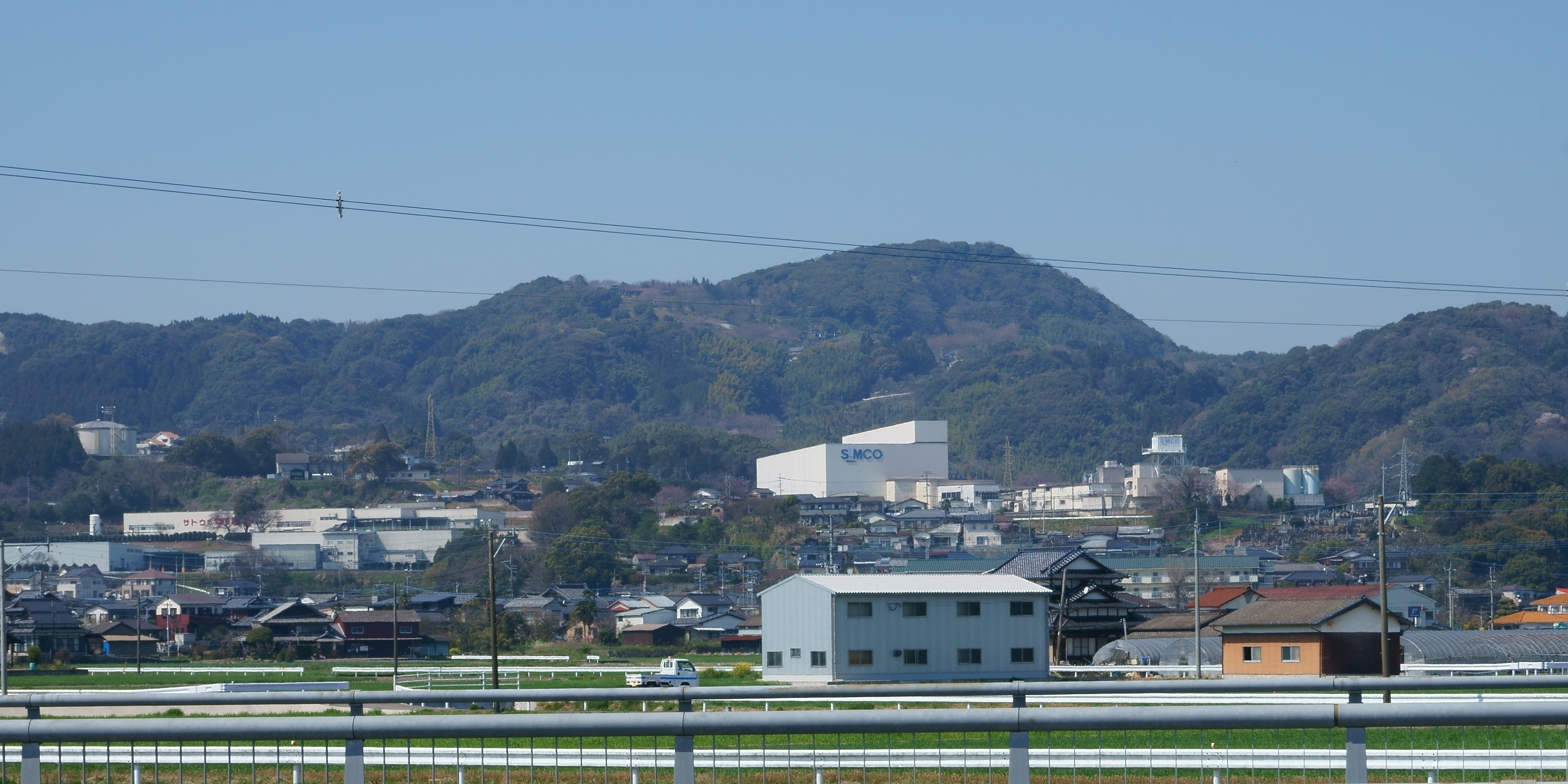 Factories on hills in Kamioda, Kohoku town, Saga prefecture. There is a ruin of coal mine.